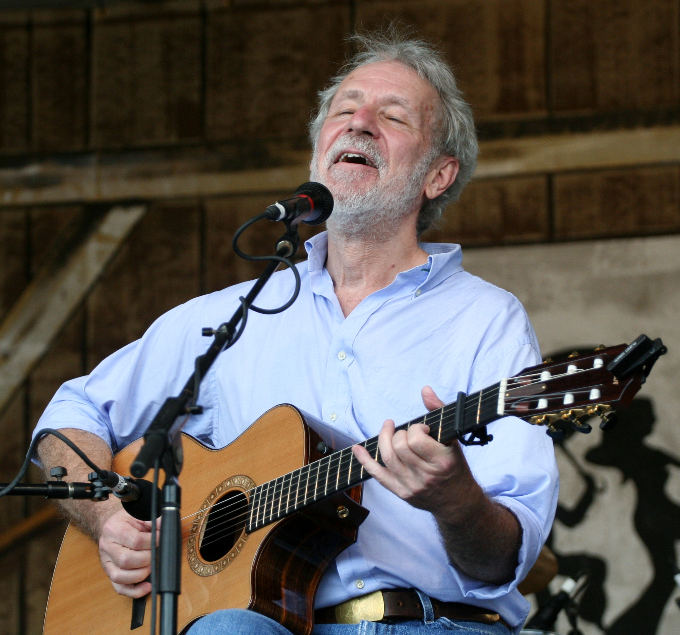 Jesse Winchester New Orleans Jazz Fest Fais Do Do Stage Saturday, May 7, 2011